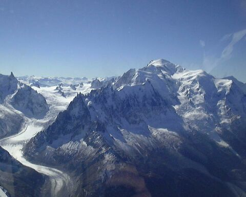 Mont Blanc, with, from left to right: Dent du Géant, Mer de Glace, Aiguilles de Chamonix, Mont Blanc, Dôme du Goûter and Aiguille du Goûter. Photo taken by Zulu from Socata TB-20 at 13,000 feet (4,000 metres) height.